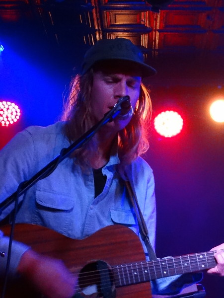 Close ups of members of Current Swell playing at The Saint in Asbury Park, NJ. Photo by LHCollins. 04062018.